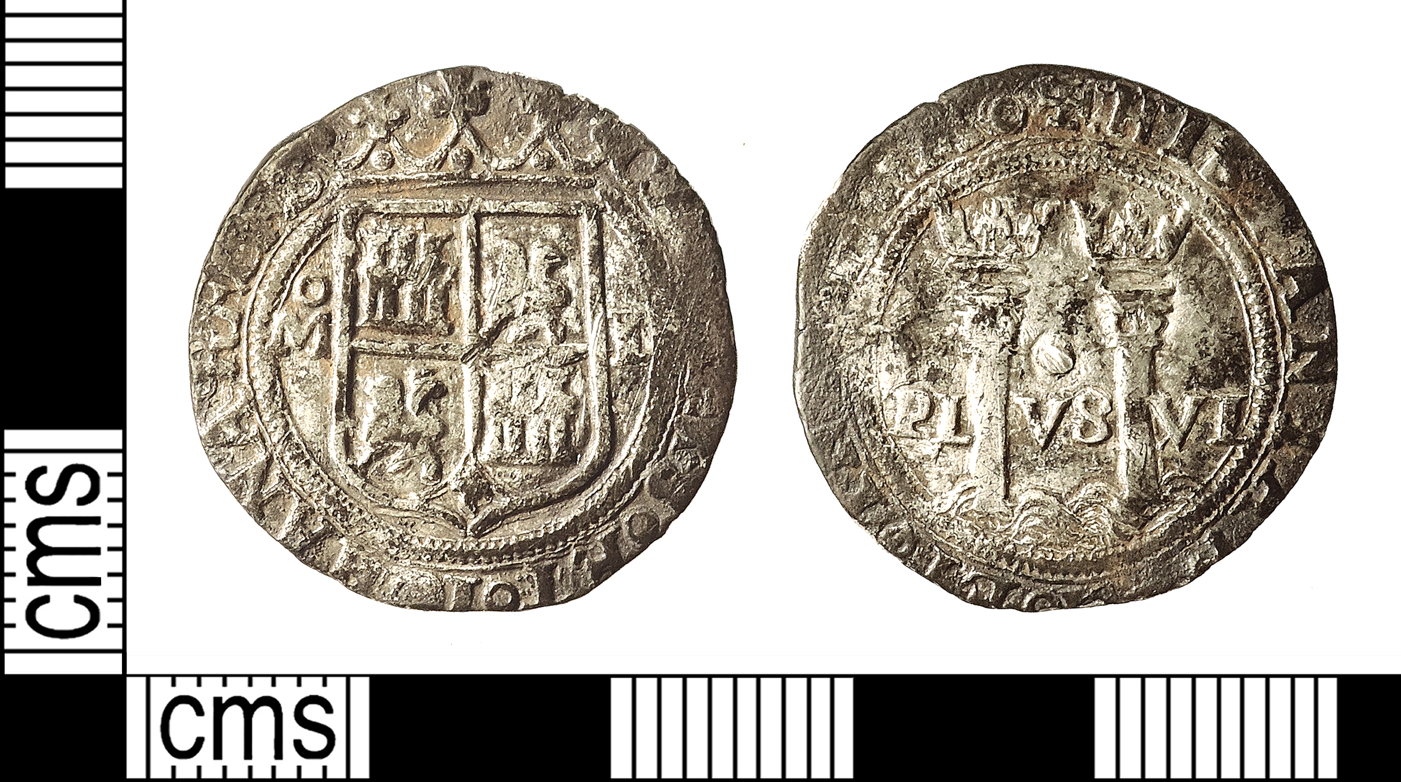 A complete post-Medieval silver 1-real piece in the names of Joanna and Carolus of Spain (1506-1544). Minted at Mexico. Assayer: Luis Rodríguez (1548-67). Initial mark: cross potent. Obverse: KAROLVS ET JOHANNA REGIS (annulet stops); Shield of Léon and Castille with M with little ring to left side and L to right Reverse: HYSPANIARVM ET INDIARVM (annulet stops); Pillars of Hercules with waves below, inscription PL/VS/VI across centre (single pellet above VS) Diameter: 22.8mm. Weight: 3.14g. DA=12:12. (Calico, Calico, Trigo 1988) is Juana y Carlos, no 167.